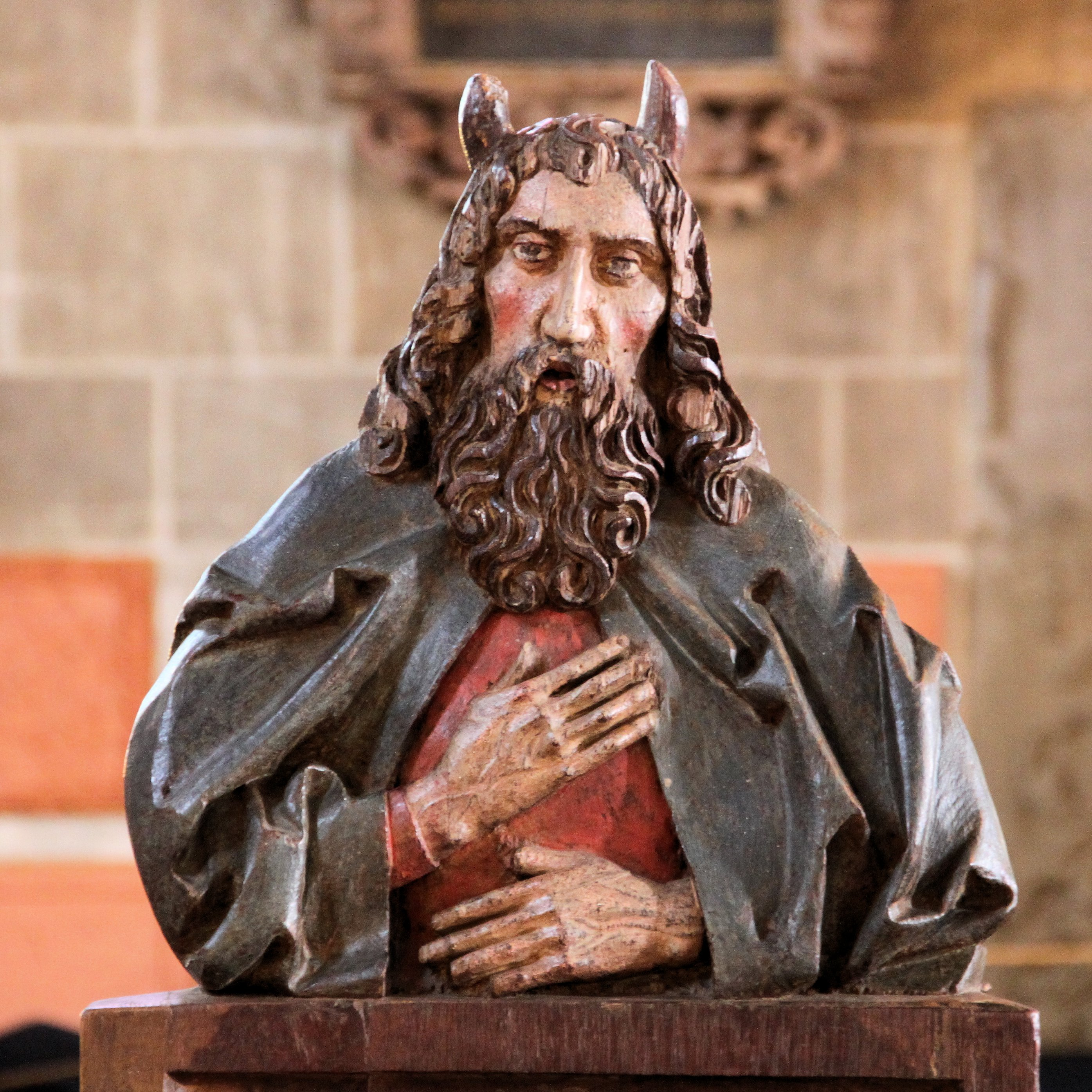 Carved sculpture of Moses on the choir stalls at St. George's Collegiate Church, Tübingen